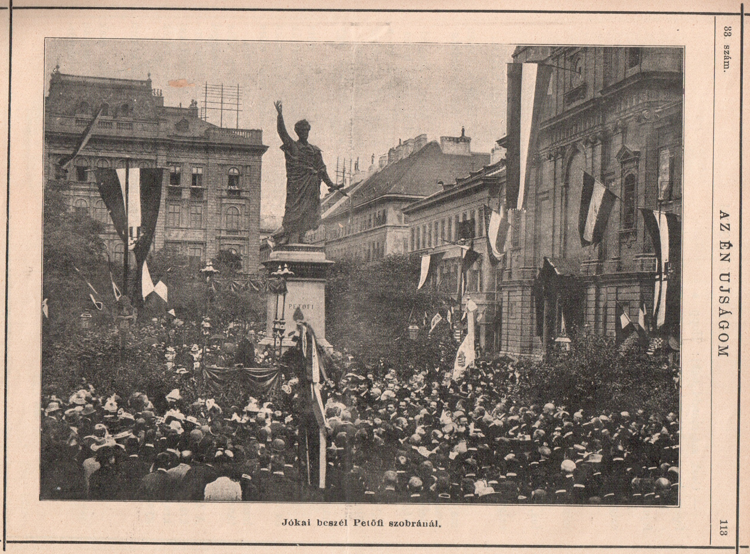 Mór Jókai's speech at the Petőfi statue in Budapest